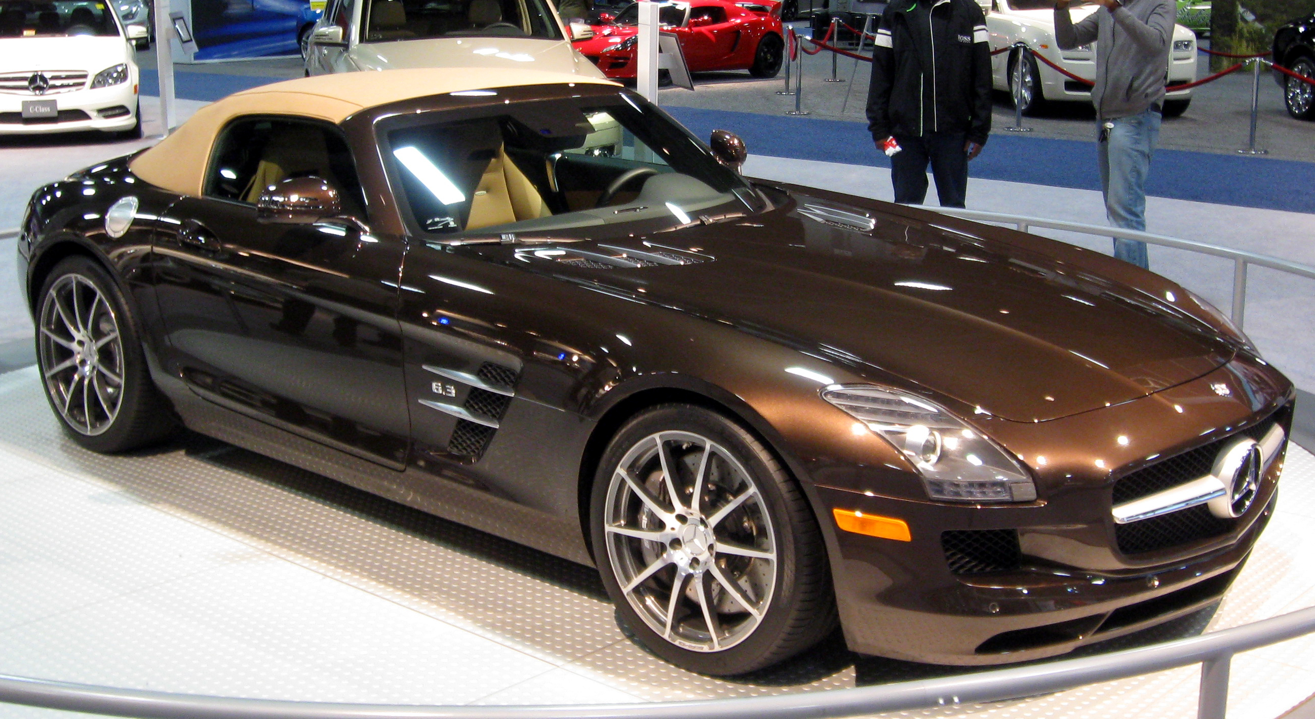 Mercedes-Benz SLS photographed in Washington, D.C., USA.